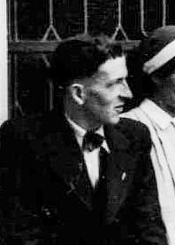 Auguste Bohny (1919-2016), Swiss Teacher and speech therapist, Righteous among the Nations